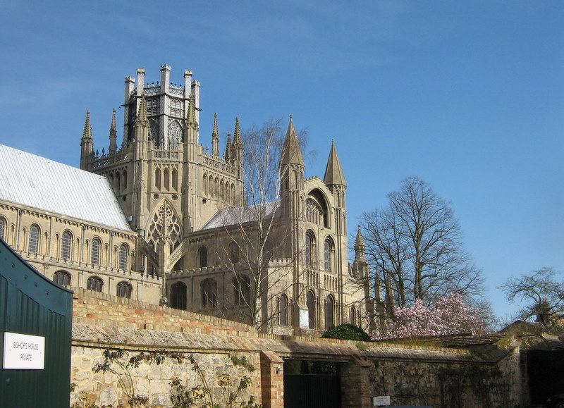 The Octagon, Ely Cathedral. taken by gwendraith 2006